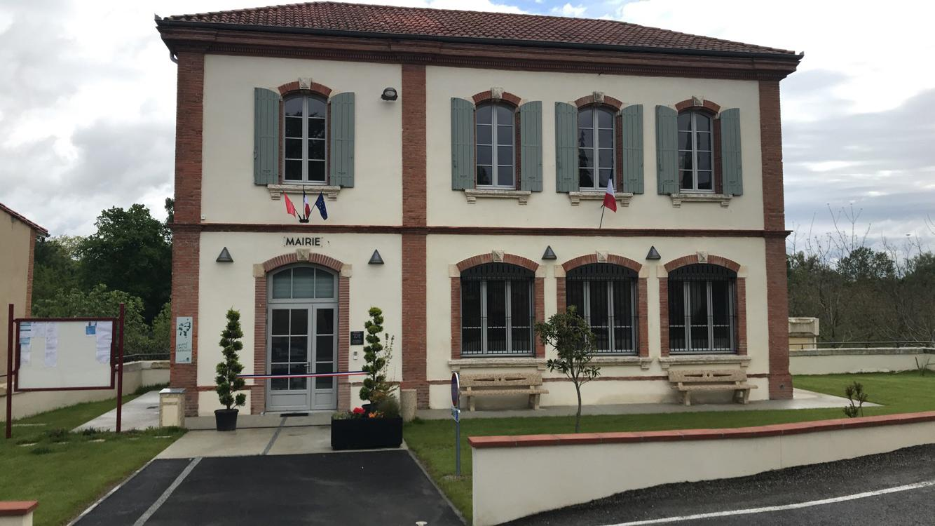 new town hall